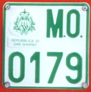 The file represents a rare construction machine, such as crane, plate (only with square format) issued in San Marino since 1994